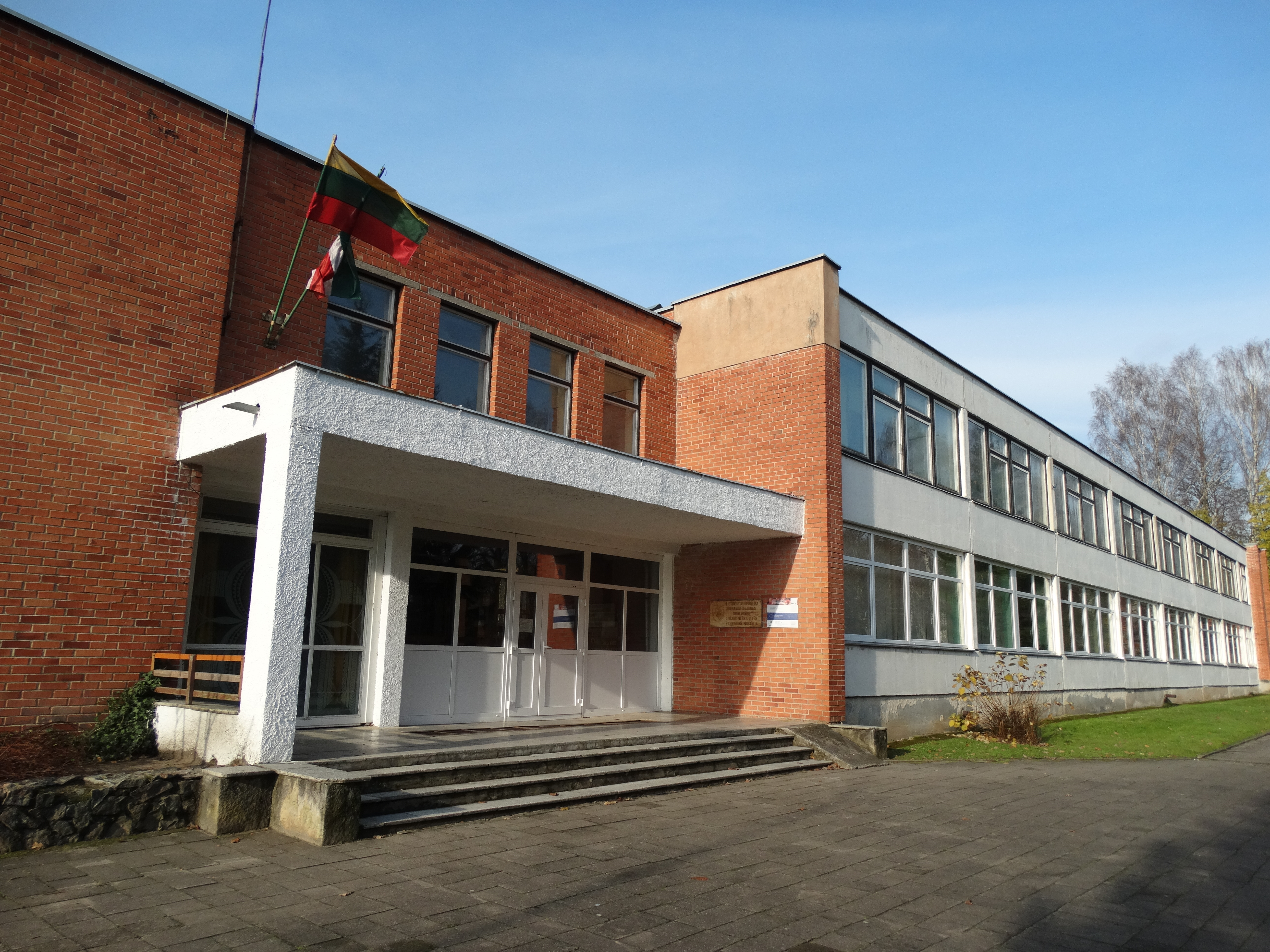 Basic school, Smalininkai, Jurbarkas District, Lithuania